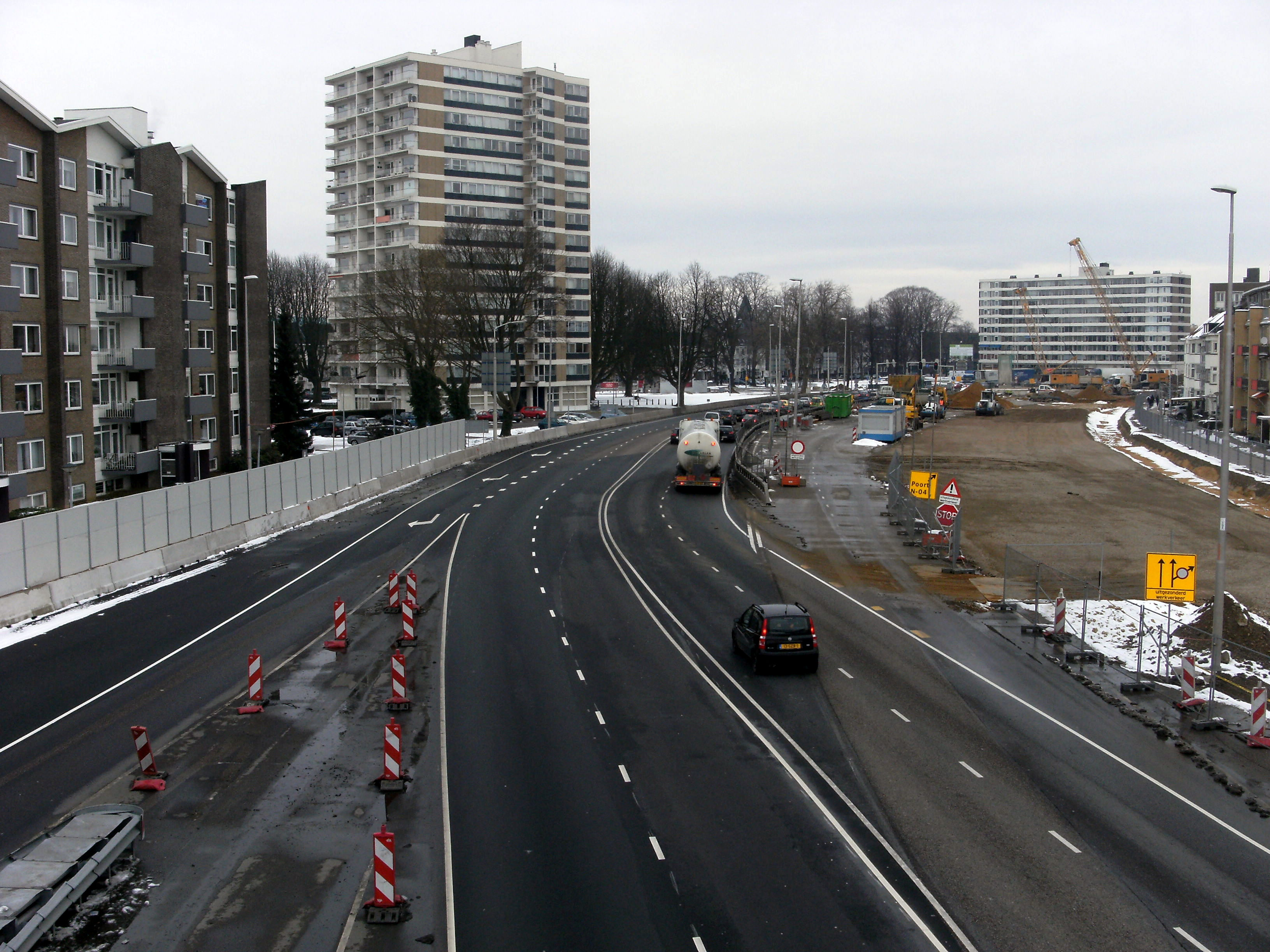 20130313 Construction site tunnel A2 Maastricht